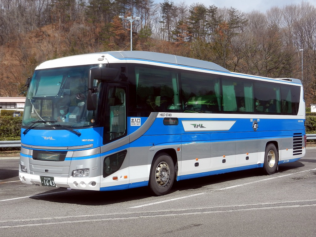 JR bus Kanto Hino S'elega (PKG-RU1ESAA) JNR revival color bus (blue swallow version)